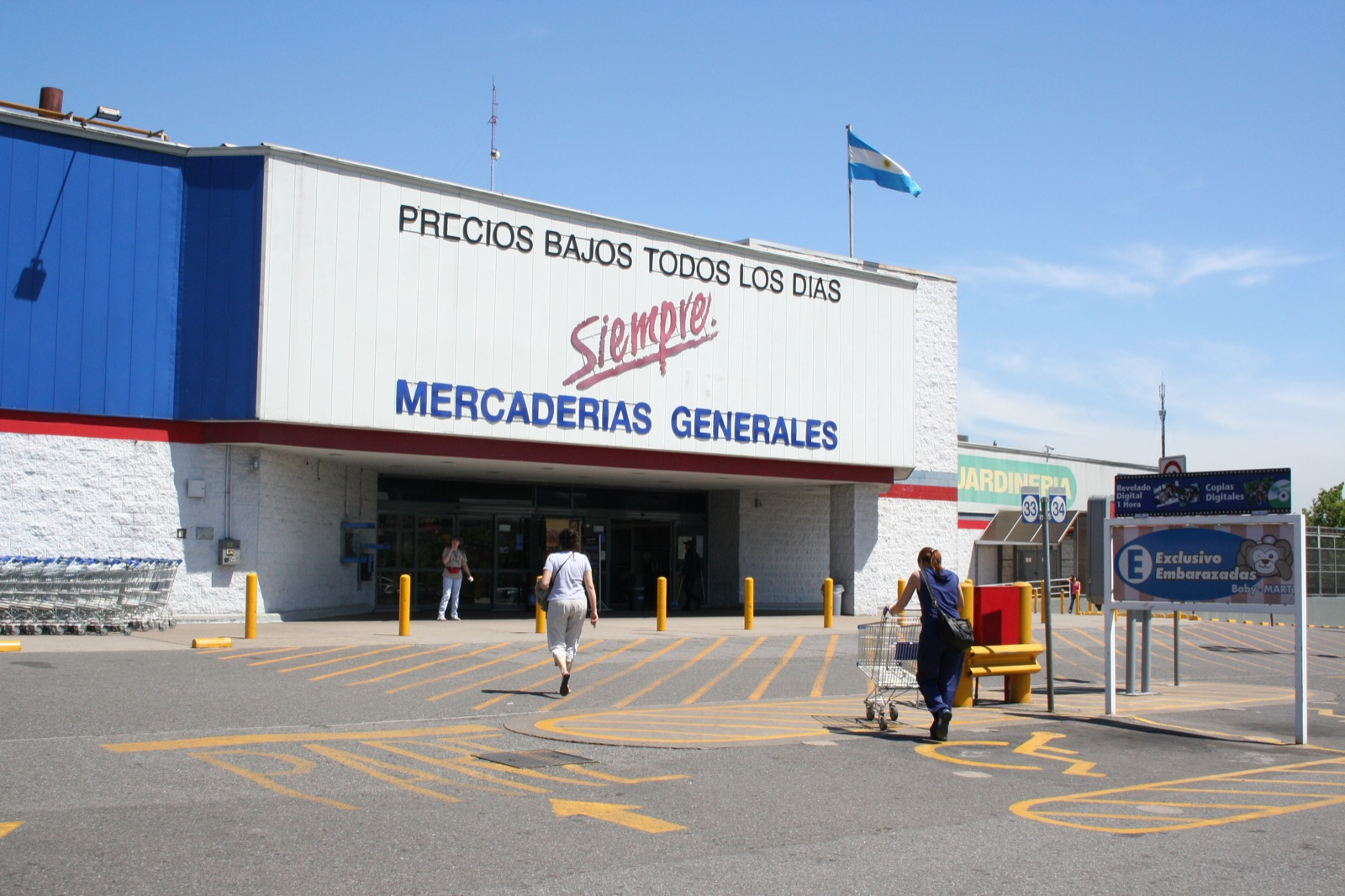 Wal-Mart, Buenos Aires, 2007